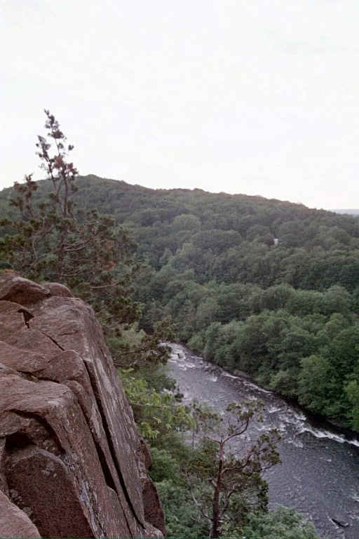 Farmington River Gorge. Hatchet Hill, Simsbury, Connecticut. The Metacomet Ridge. by Paul Gagnon 2000.